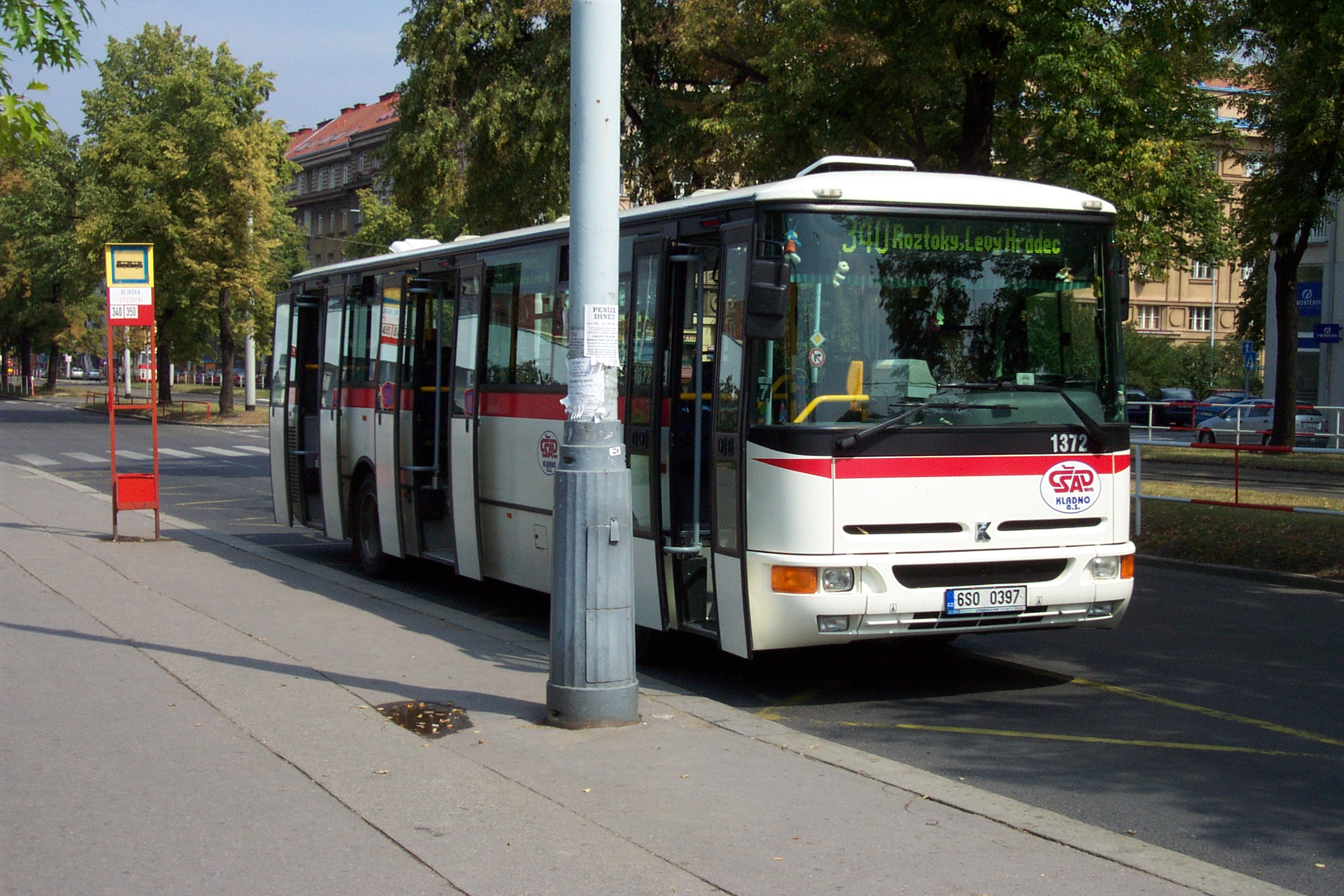 ČSAD Kladno bus in Prague Dejvice